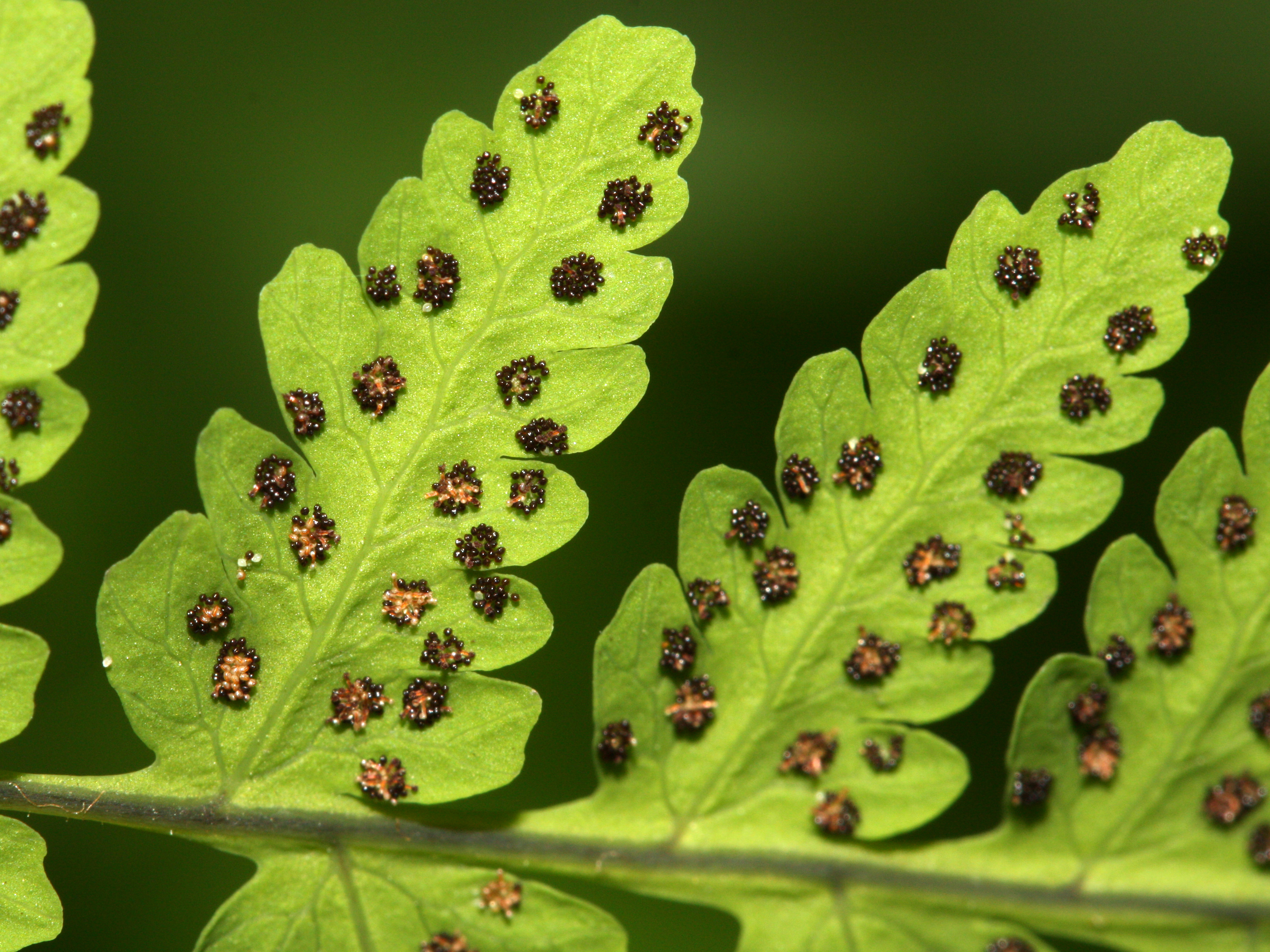 Gymnocarpium dryopteris - Common Oak Fern, Northern Oak Fern